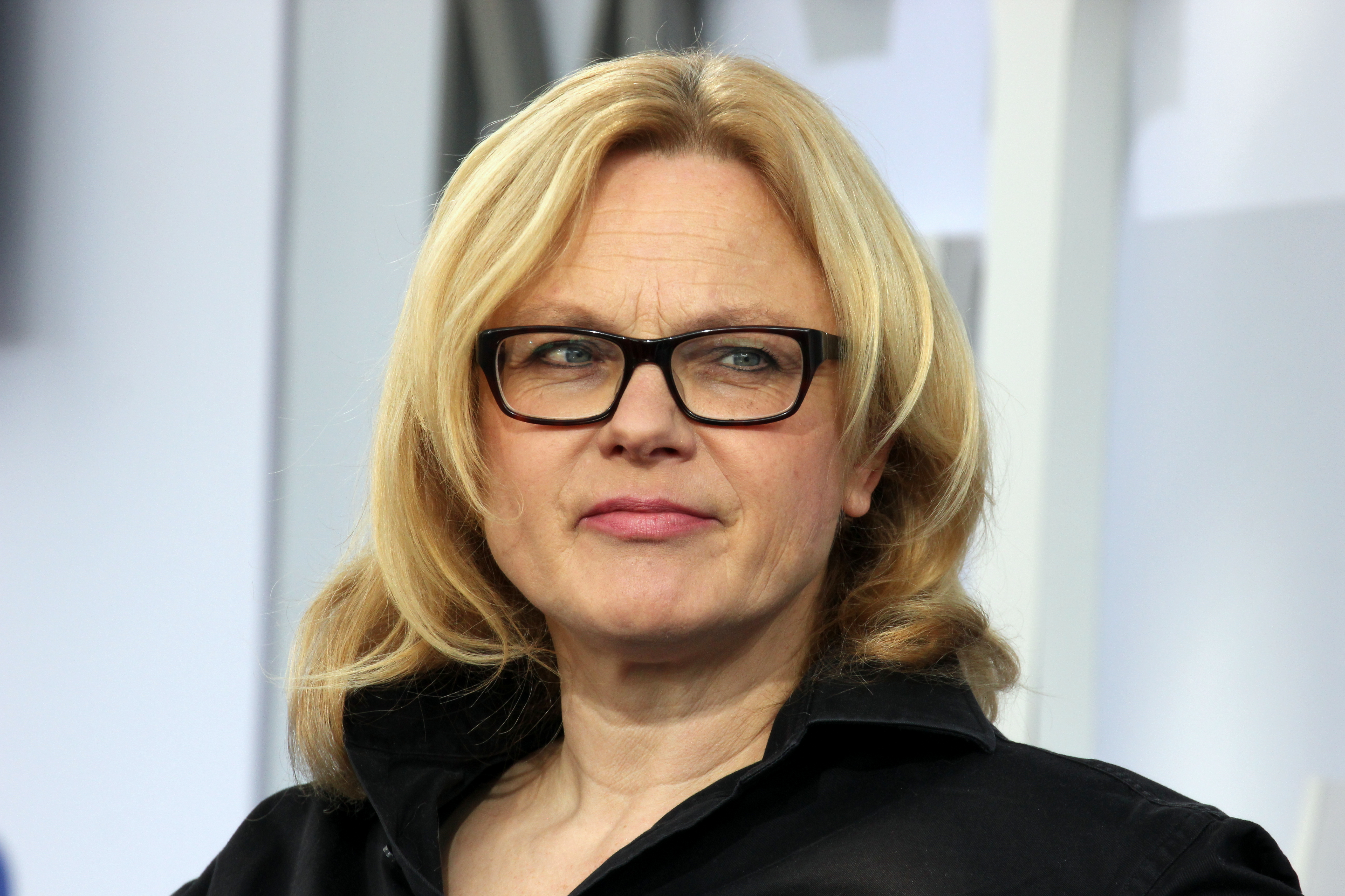 Karen Duve at Leipzig Book Fair 2016